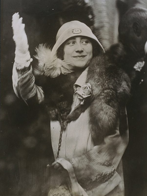 Creator: Unknown Date: March 1927 Format: Photograph; gelatin silver print Collection: Daily Herald Archive at the National Media Museum Inventory no: 1983-5236/91 Blog: Happy Australia Day Queen Elizabeth, in Sydney, Australia, waving. She is wearing a fox stole.